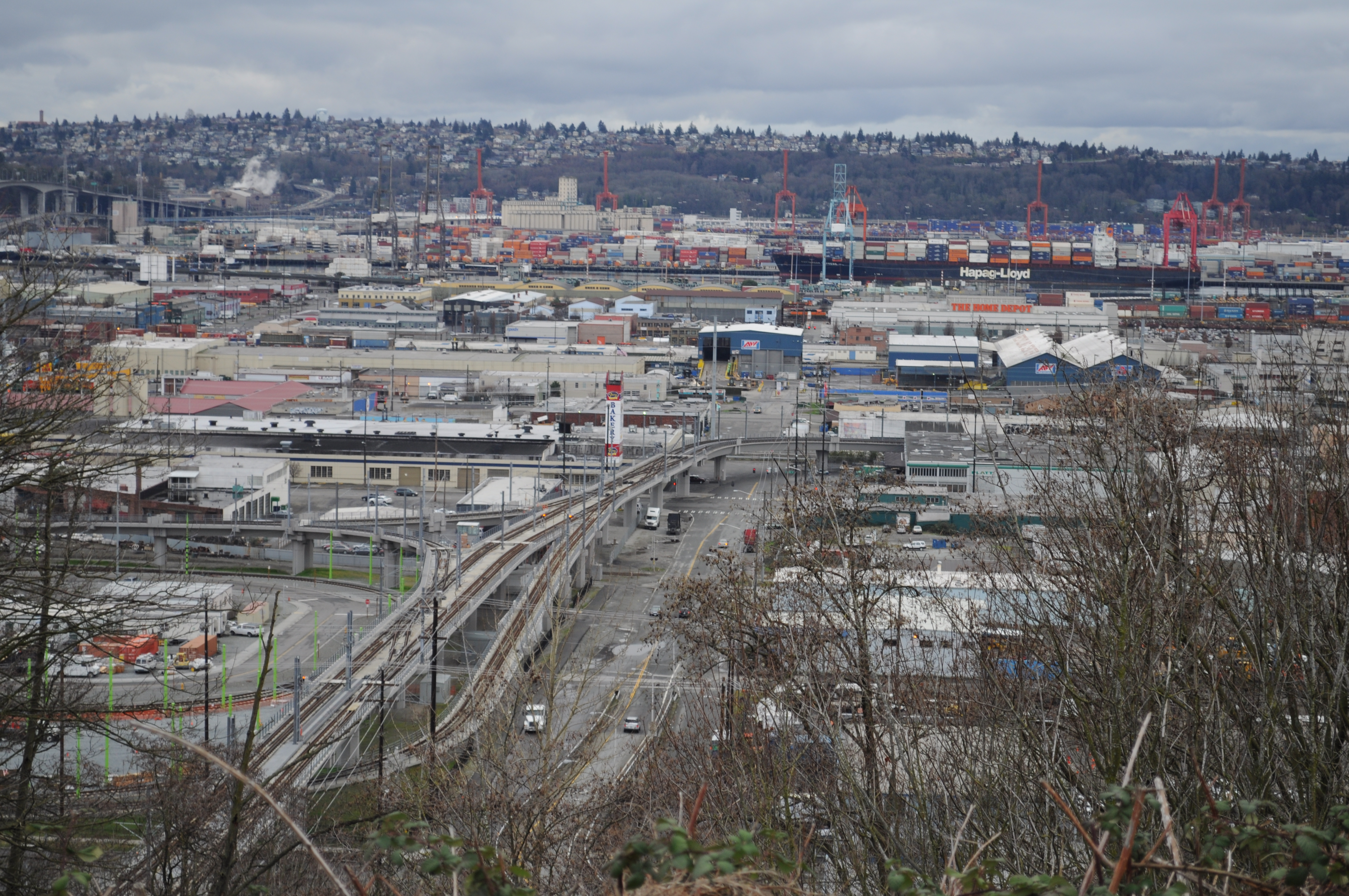 Link Light Rail tracks in Seattle's Sodo District, seen from the 12th Avenue South Viewpoint on Beacon Hill, Seattle, Washington. The tracks enter a tunnel into the hill roughly directly under the viewpoint.